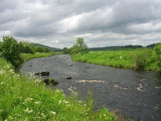 River Deveron, near Huntly.